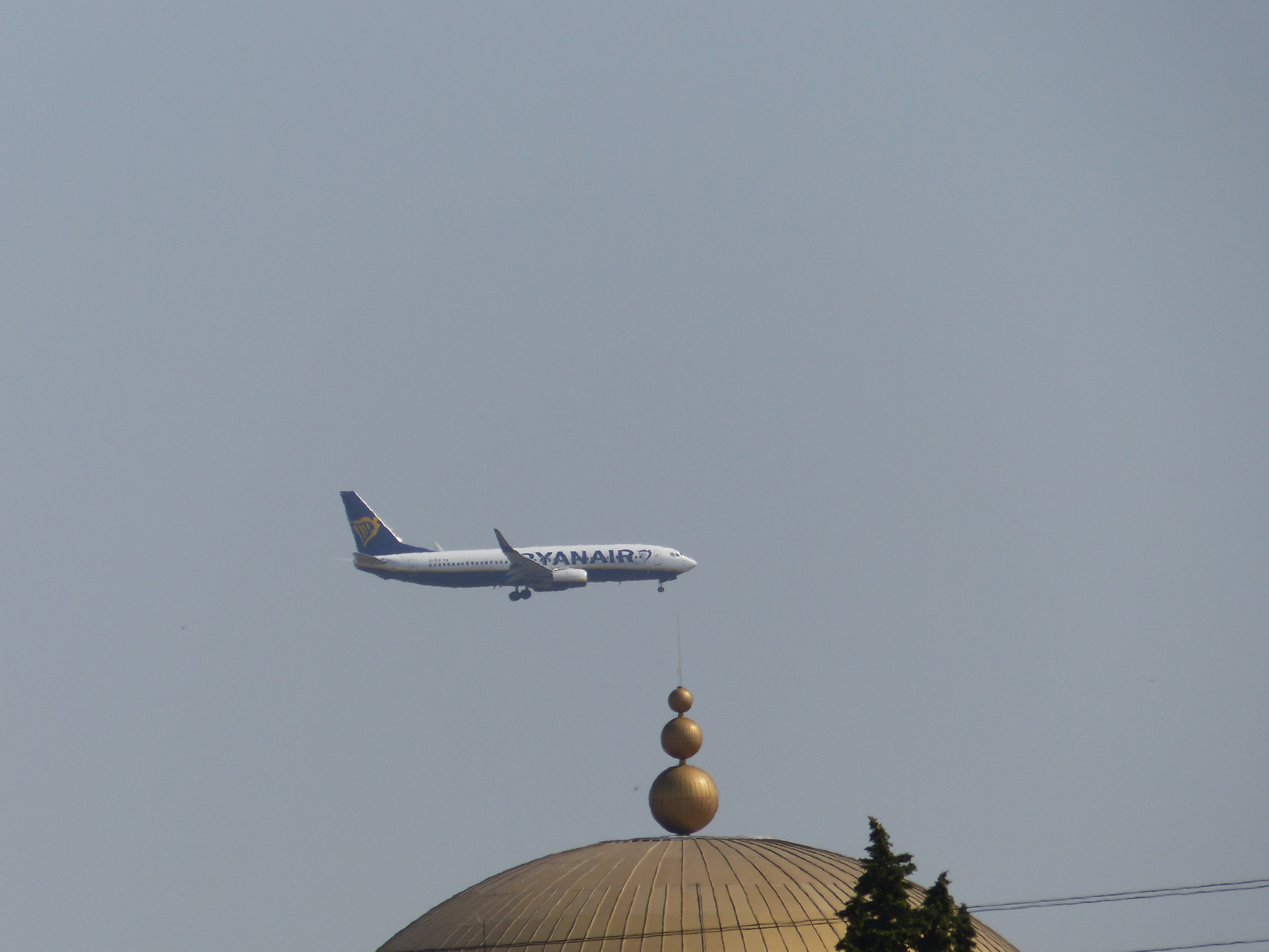 Palacio de Congresos y Exposiciones, Ryanair, Seville, Spain, 2015